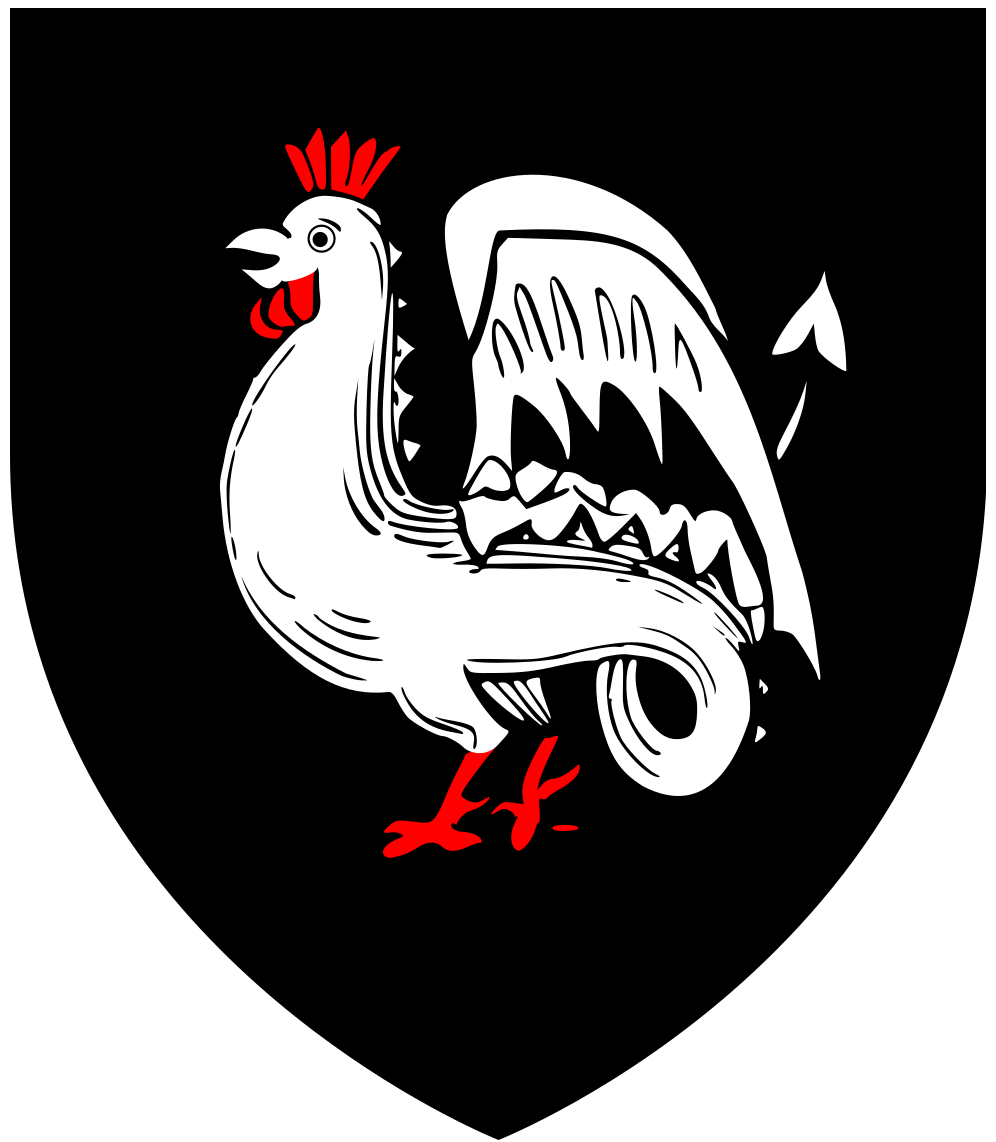 Arms of Bogan of Totnes, Devon: Sable, a cockatrice (displayed) argent crested membered and jelloped gules (Source: Vivian, Lt.Col. J.L., (Ed.) The Visitations of the County of Devon: Comprising the Heralds' Visitations of 1531, 1564 & 1620, Exeter, 1895, p.98) (Here shown not displayed, i.e. front view with wings elevated)